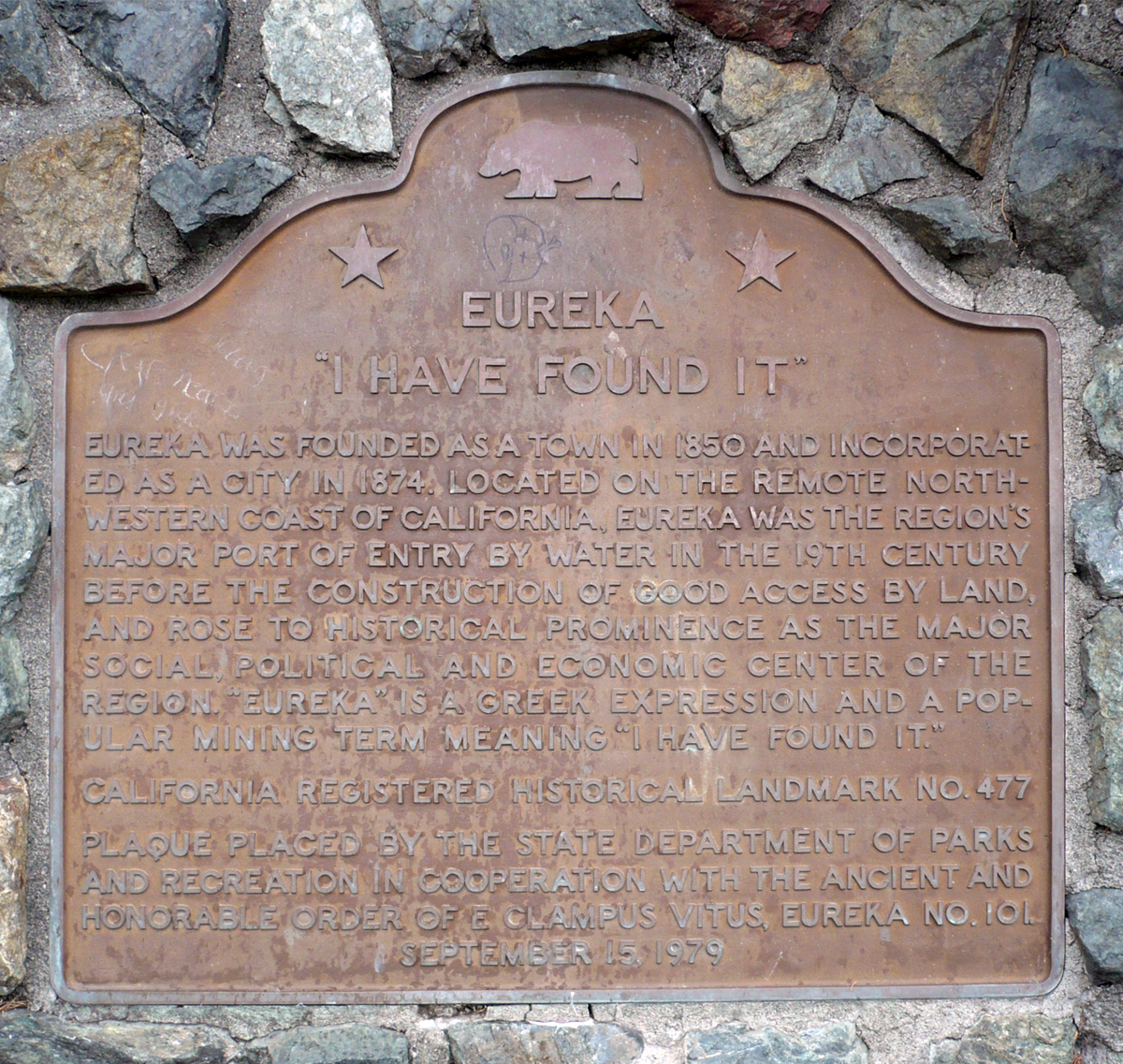 California Registered Historical Landmark No. 477. Historical Marker reads: Eureka "I have found it" Eureka was founded as a town in 1850 and incorporated as a city in 1874. Located on the remote northwester coast of California, Eureka was the region's major port of entry by water in the 19th Century before the construction of good access by land, and rose to historical prominence as the major social political and economic center of the region. "Eureka" is a Greek expression and a poopular mining term meaning "I have Found it." California Registered Historical Landmark No. 477 Plaque Placed by the State Department of Parks and Recreation in Cooperation with the Ancient and Honorable Order of E Clampus Vitus, Eureka No 101. September 15, 1979.